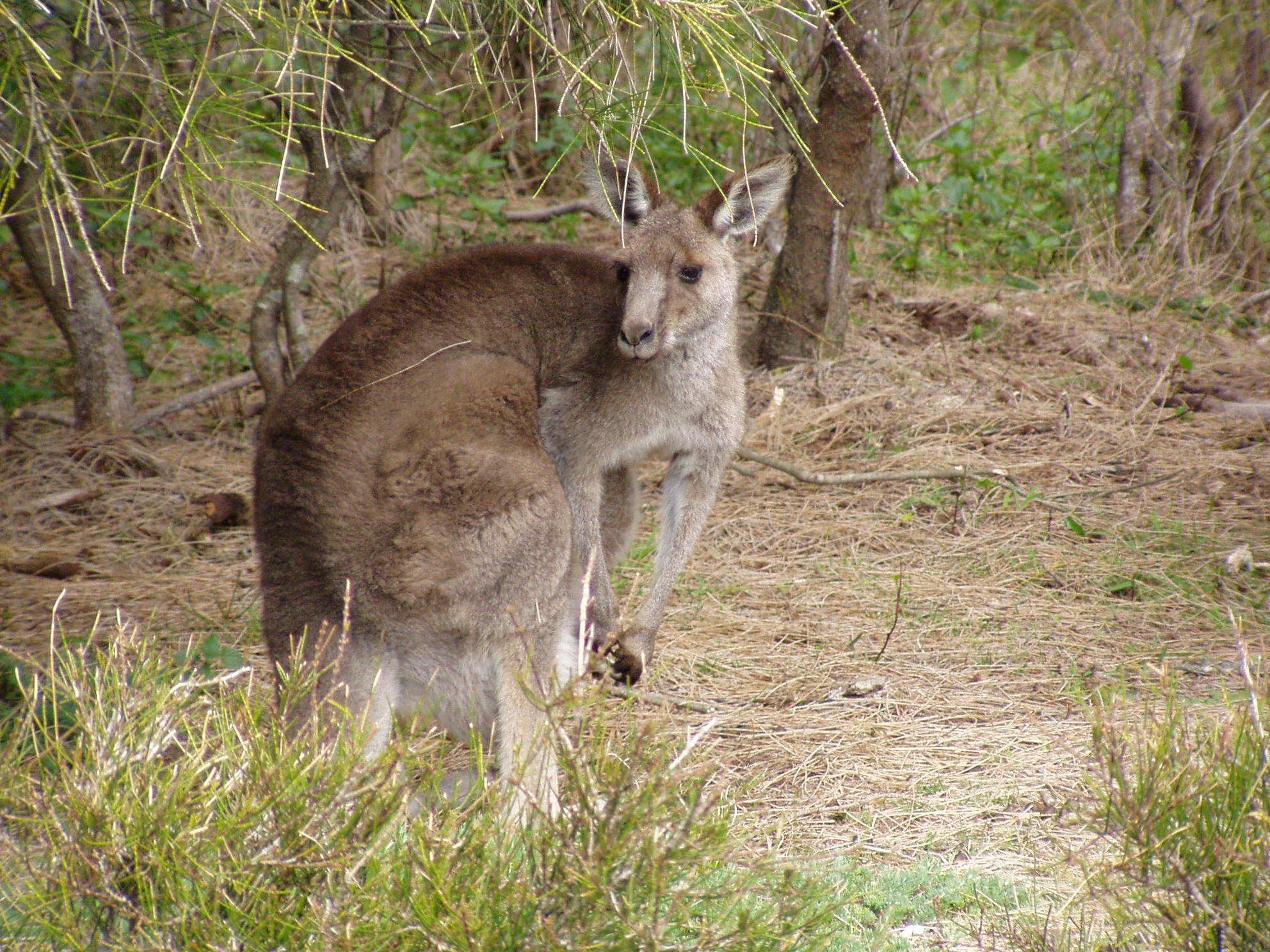 Description: Eastern Grey Kangaroo (Macropus giganteus) Location: Murramarang National Park, South Durras, New South Wales, Australia Date: 2005-09-24 Source: picture taken by Danielle Langlois Licence: Released under GFDL and Creative Commons licenses by the photographer